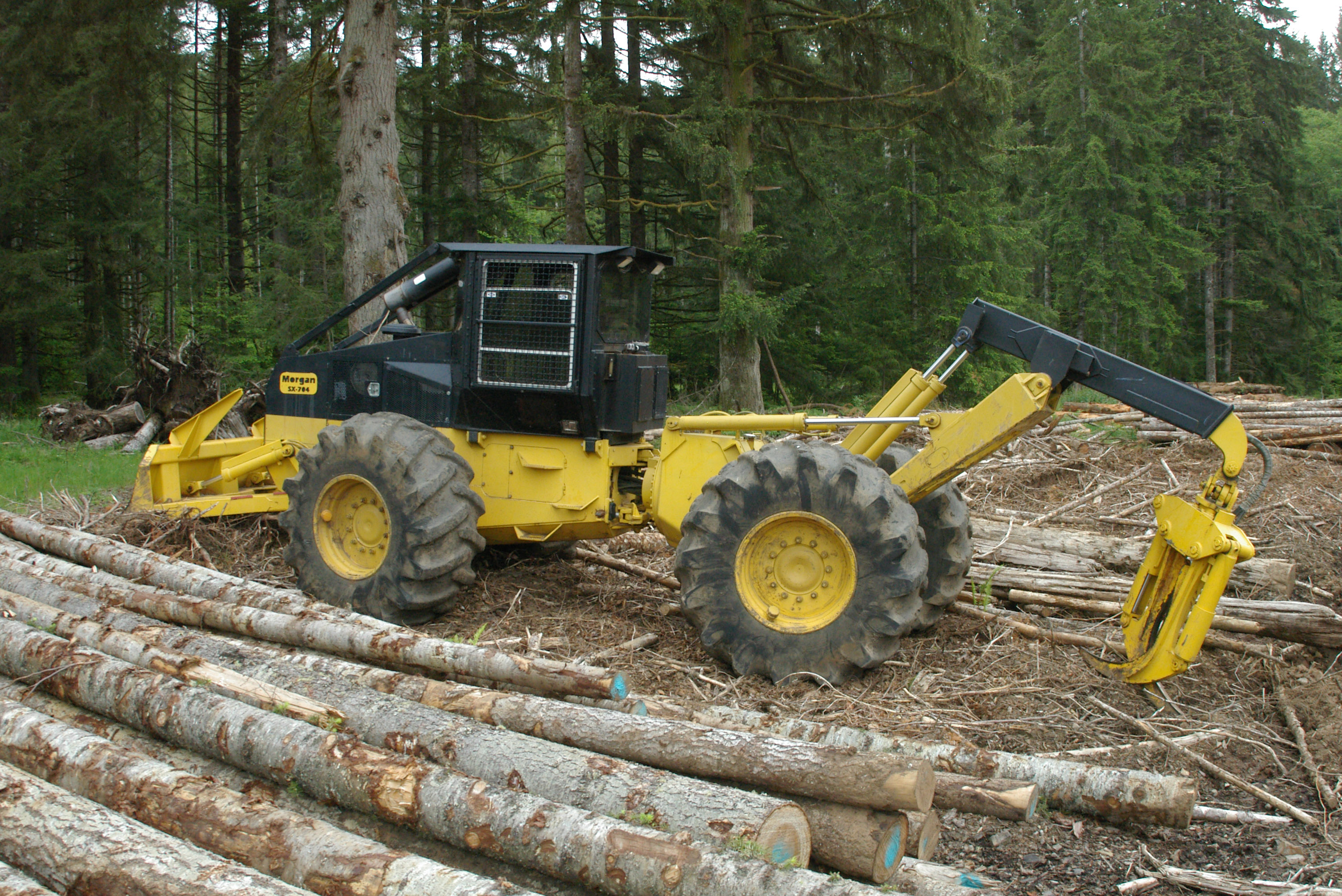 Morgan SX-704 grapple skidder – a modern skidder with dual function fixed boom grapple